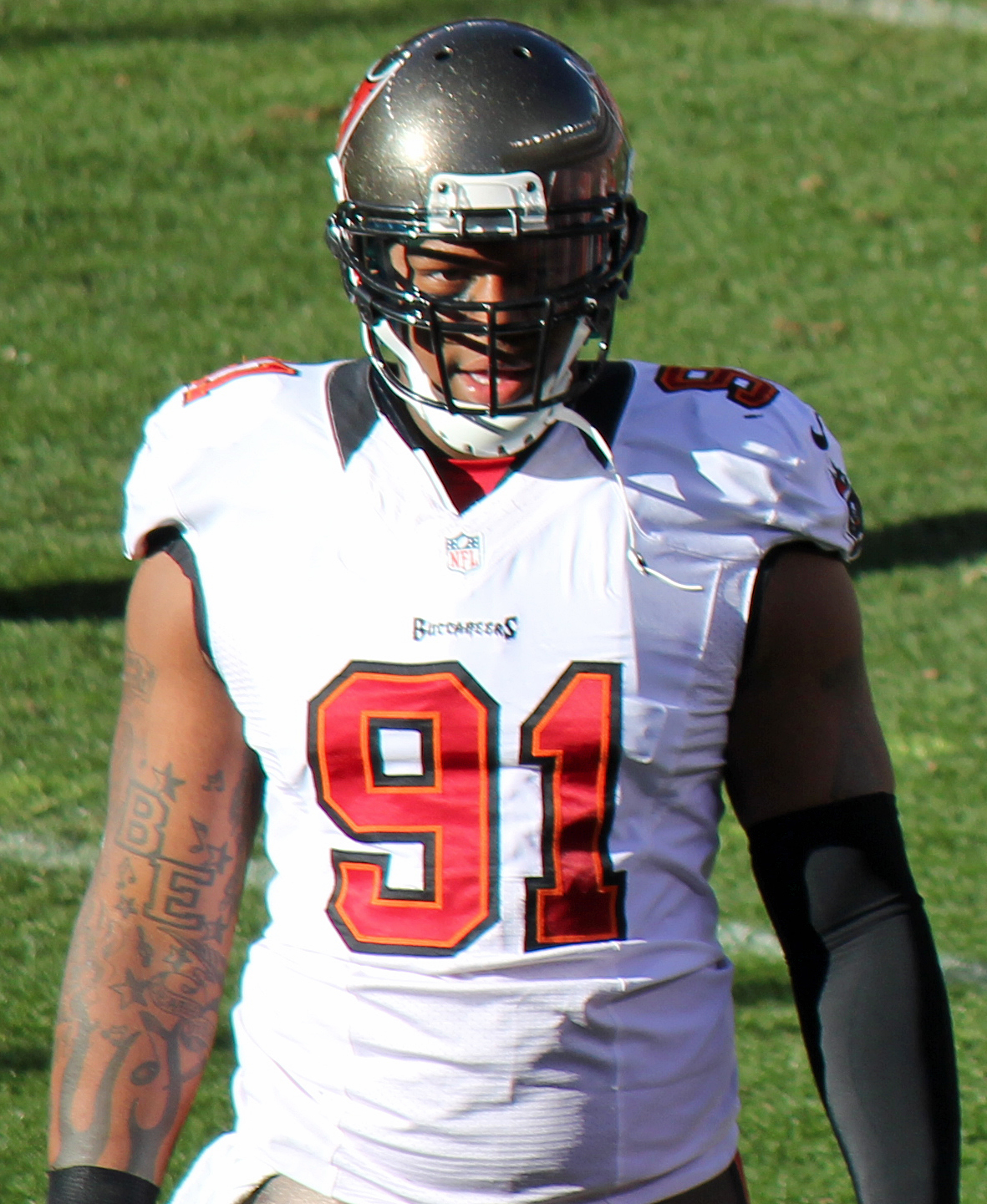 Da'Quan Bowers, a player on the National Football League.